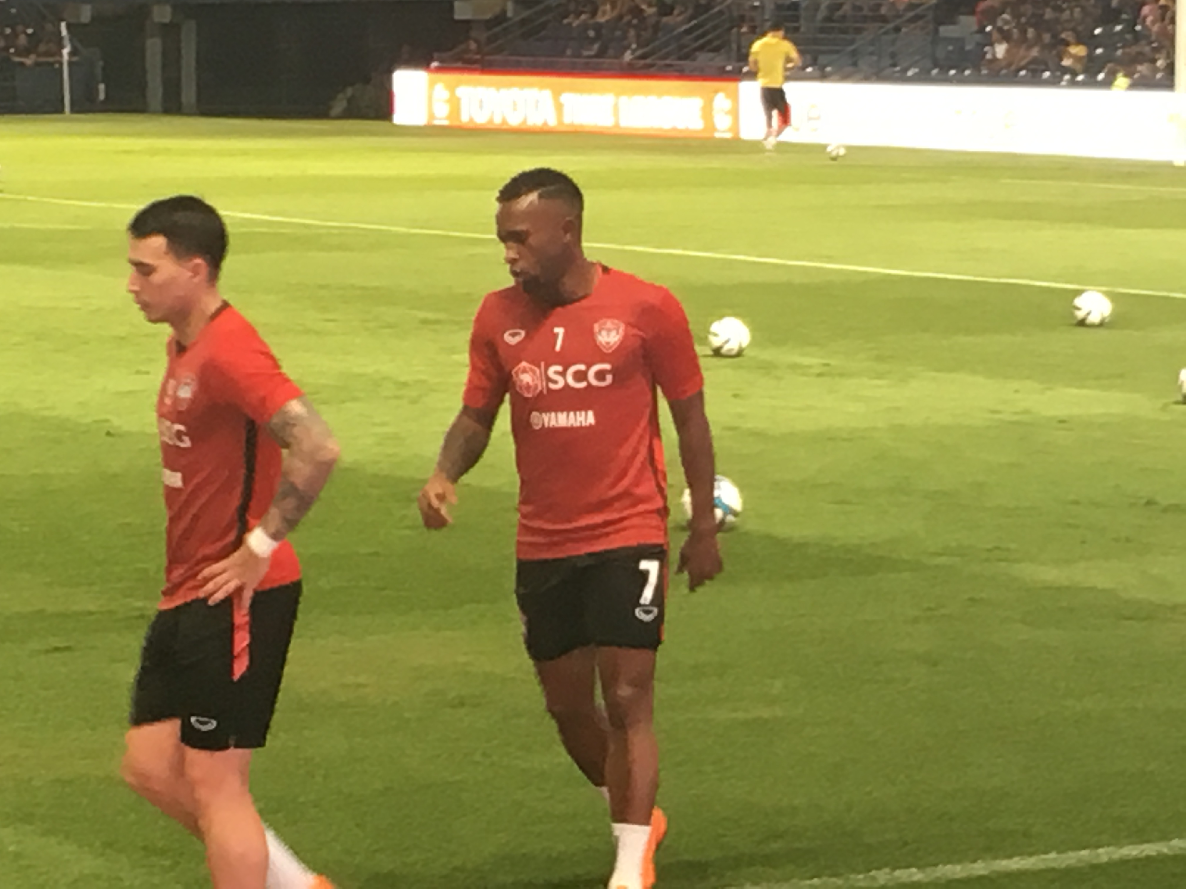 Heberty Fernandes training for Muangthong United before game with Buriram United.